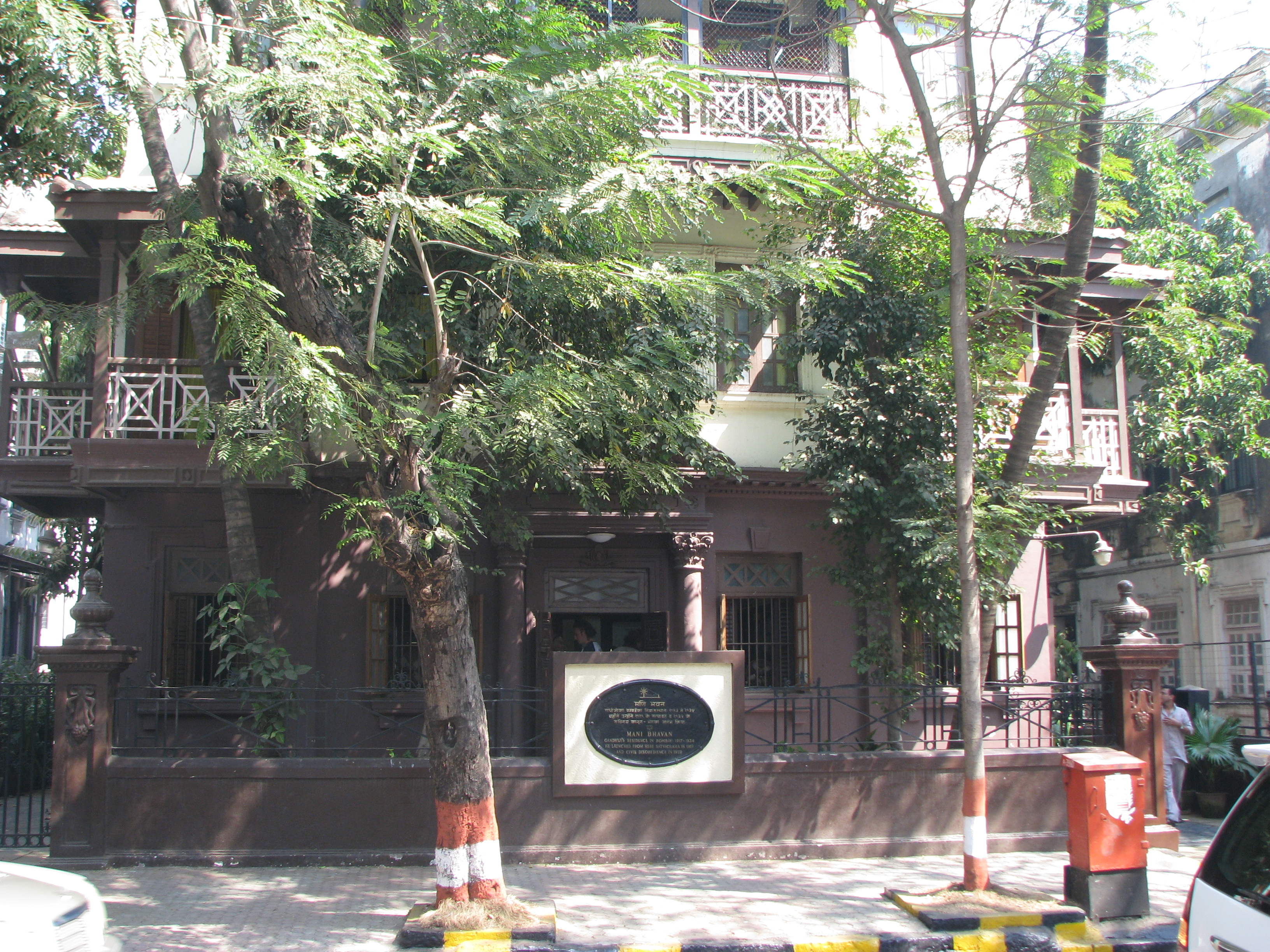 Mani Bhavan, 17 Laburnam Road, Mumbai India, where Mahatma Gandhi lived from 1917 to 1934.